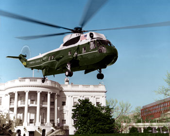 Photo of Marine One from the Nixon Library